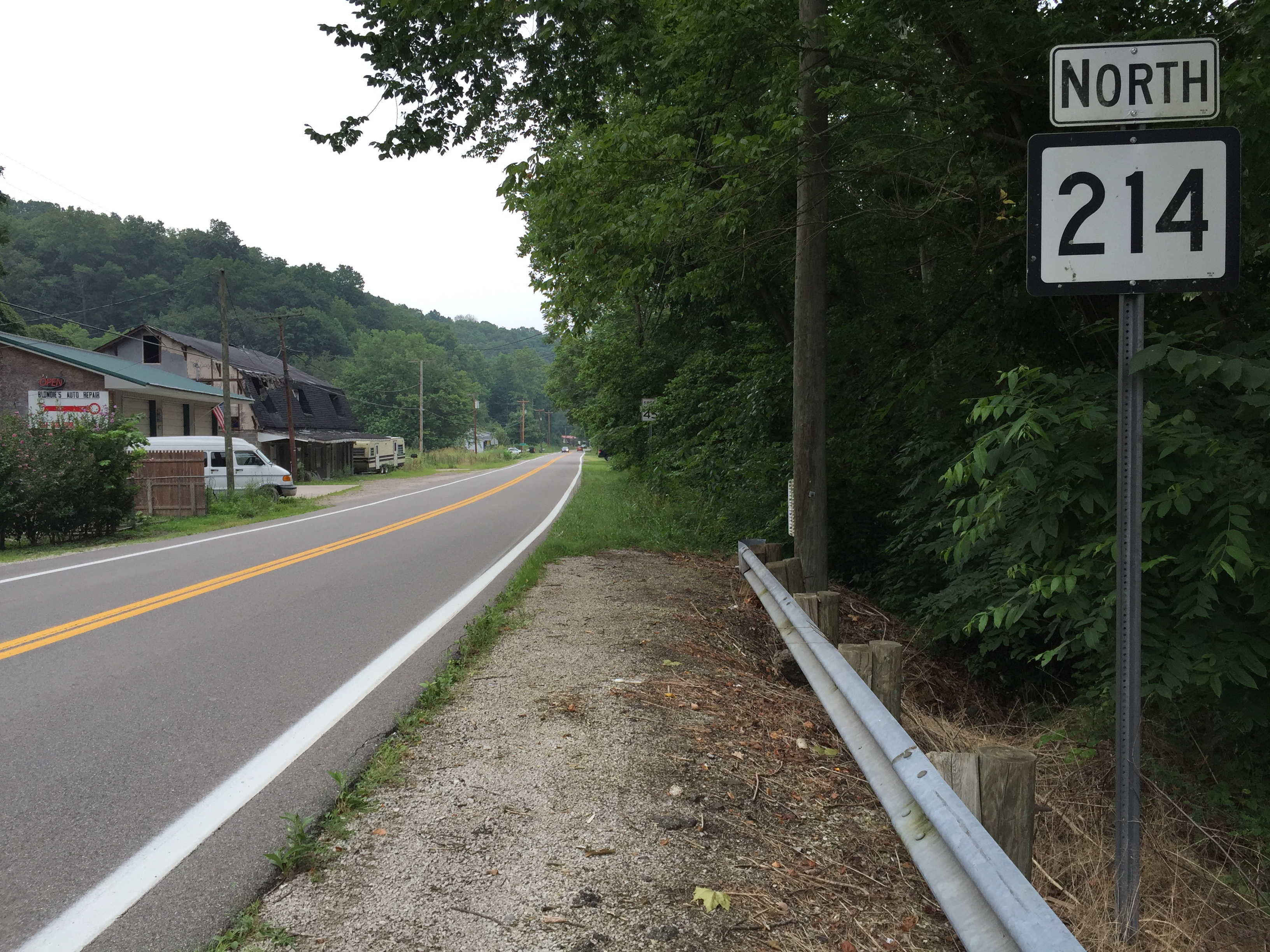 View north along West Virginia State Route 214 (Childress Road) just north of Priestley Ridge Road (Lincoln County Route 1/2) in Priestley, Lincoln County, West Virginia